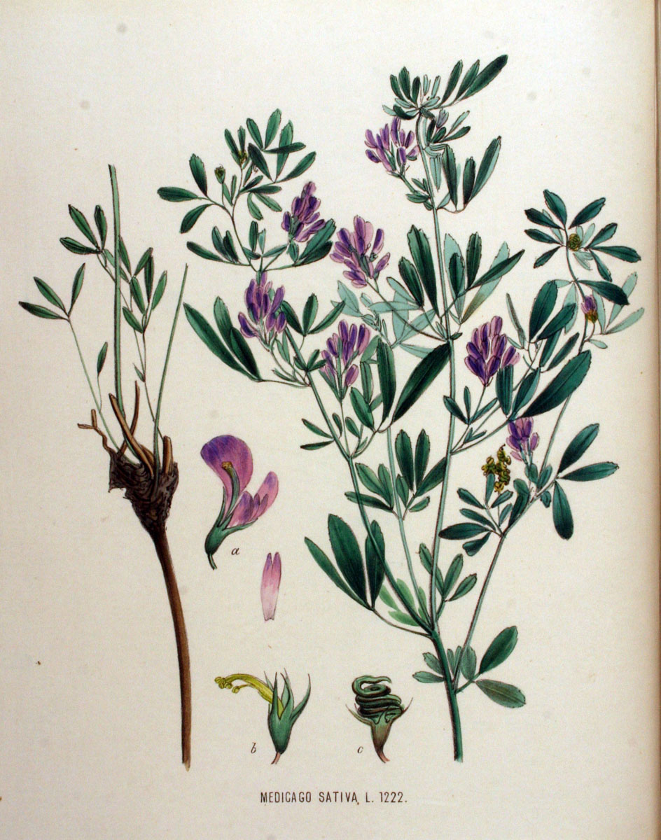 Illustration of Medicago sativa L.